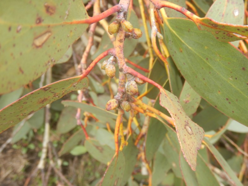 Flower buds of Eucayptus pauciflora subsp. debeuzevillei near to range top at Mount Gingera